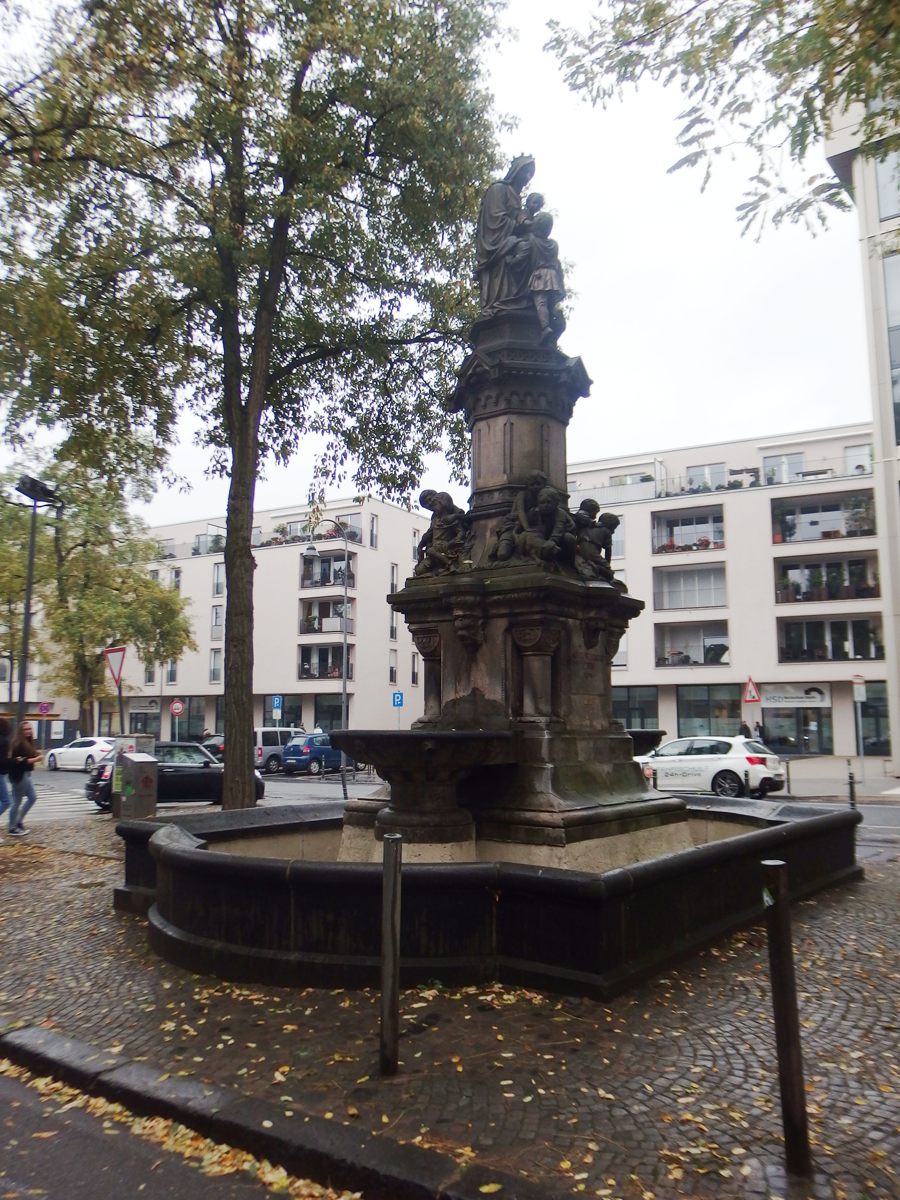 Cologne, Germany.